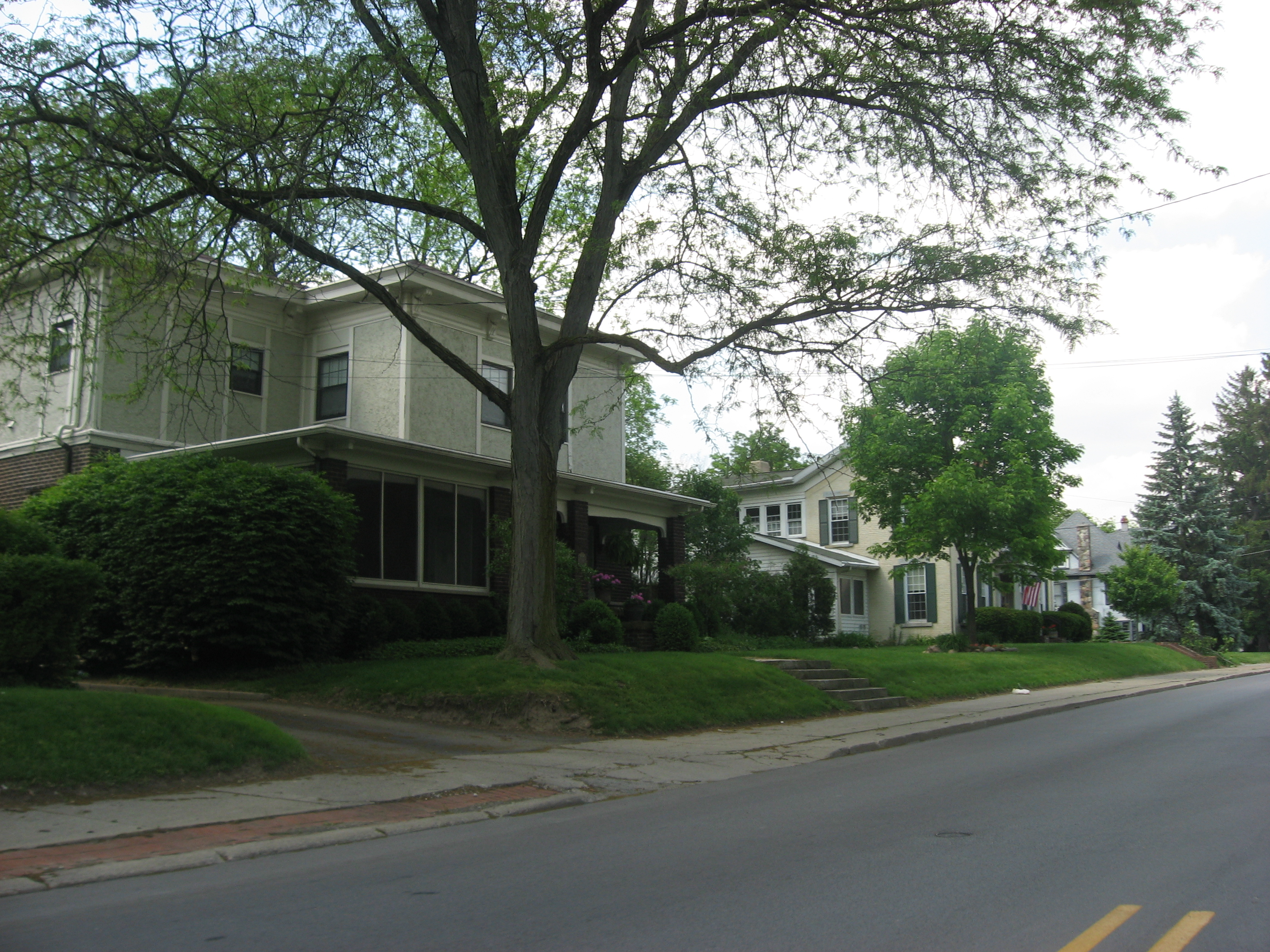 Houses on the western side of the 400 block of N. Wabash Street (State Road 13) in Wabash, Indiana, United States. This block is part of the North Wabash Historic District, a historic district that is listed on the National Register of Historic Places.